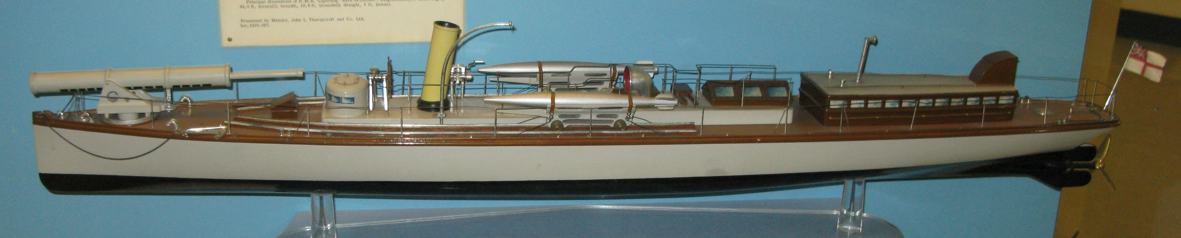 A photo of a model of Torpedo boat HMS Lightning